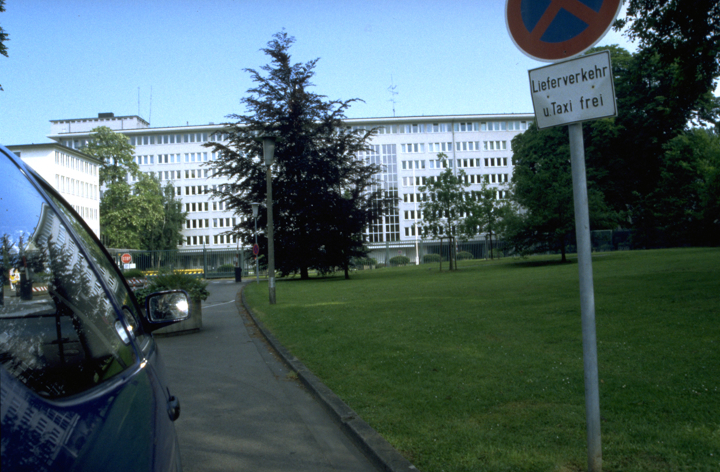 Former U.S. Embassy building in Mehlem, a suburb of Bonn-Bad Godesberg, Germany